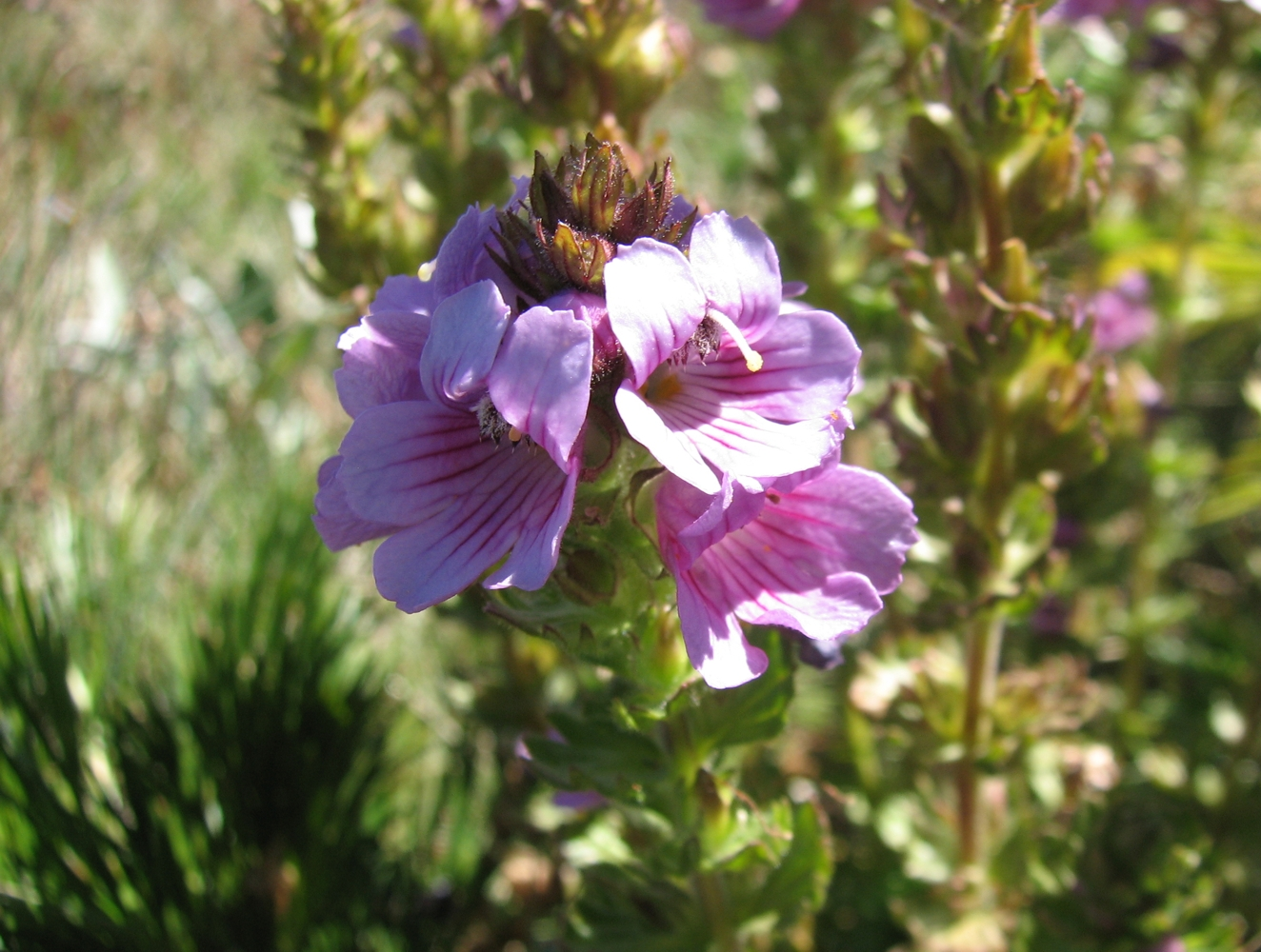 Euphrasia lasianthera, Mount Buller, Victoria, Australia